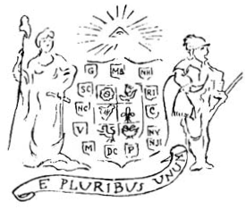 Original proposed design for the Great Seal of the United States by Pierre Eugene du Simitiere in 1776. Taken from the PDF version of the US Department of State's pamphlet The Great Seal of the United States, which can be found here. Caption beside image in pamphlet reads